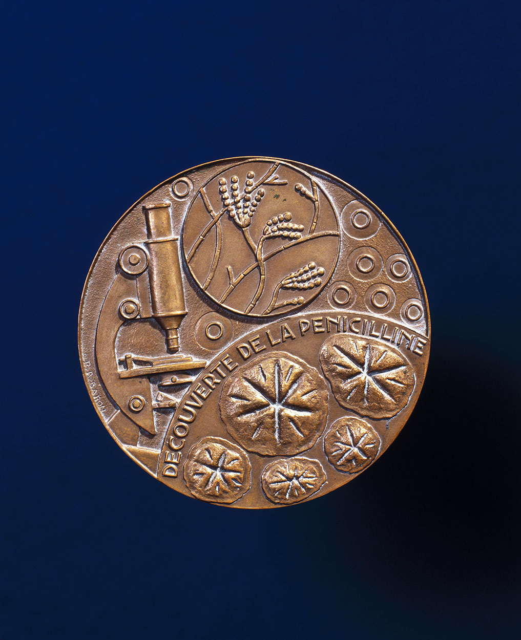 The inscription on reverse side reads; 'Alexander Fleming Prix Nobel 1945'. In 1928 Alexander Fleming (1881-1955) had discovered that a strain of penicillium mould exuded a substance which killed certain bacteria. Following the German firm IG Farben's announcement of the first general purpose bacteria-killing drug Prontosil, Fleming now saw it as a possible medicine and gave this sample to a colleague at St Mary's Hospital, London. Penicillin was eventually isolated in 1939, and from 1942 became an important drug. Although the work leading to this was largely carried out by Howard Florey and Ernst Chain, Fleming shared the Nobel Prize for Medicine with them in 1945.